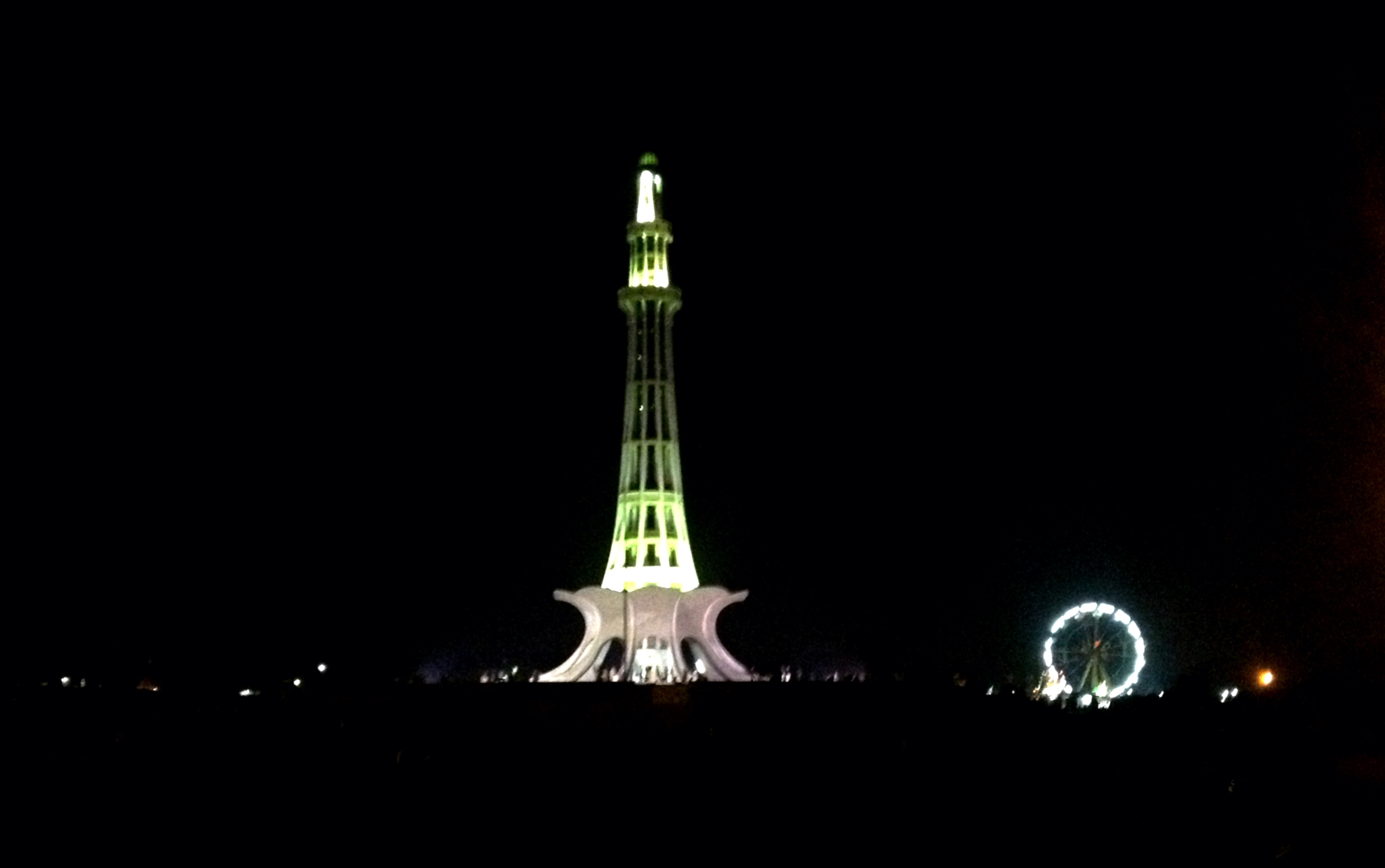 Minar-e-Pakistan (Urdu: مینارِ پاکستان / ALA-LC: Mīnār-i Pākistān, literally "Tower of Pakistan") is a public monument located in Iqbal Park which is one of the largest urban parks in Pakistan in Lahore, Pakistan.[1] The tower was constructed during the 1960s on the site where, on 23 March 1940, the All-India Muslim League passed the Lahore Resolution, the first official call for a separate homeland for the Muslims living in the South Asia, in accordance with the two nation theory. This is a photo of a monument in Pakistan identified as the PB-73